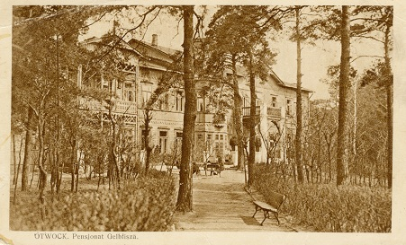 Gurewicz retreat before World War II, example of Świdermajer, a distinct Polish architectural style developed in late 19th and early 20th century in Masovia